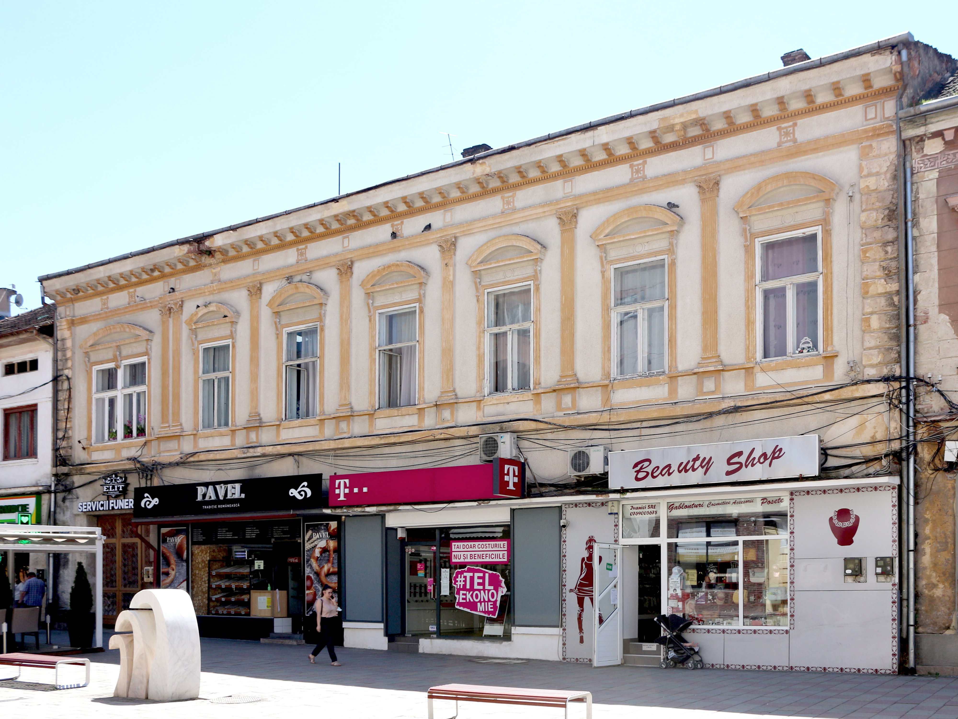 Diocesan House, now the headquarters of the Pension House, Eiscopiei St., no. 14, Catransebeș, Romania, built in the middle of 19th century.